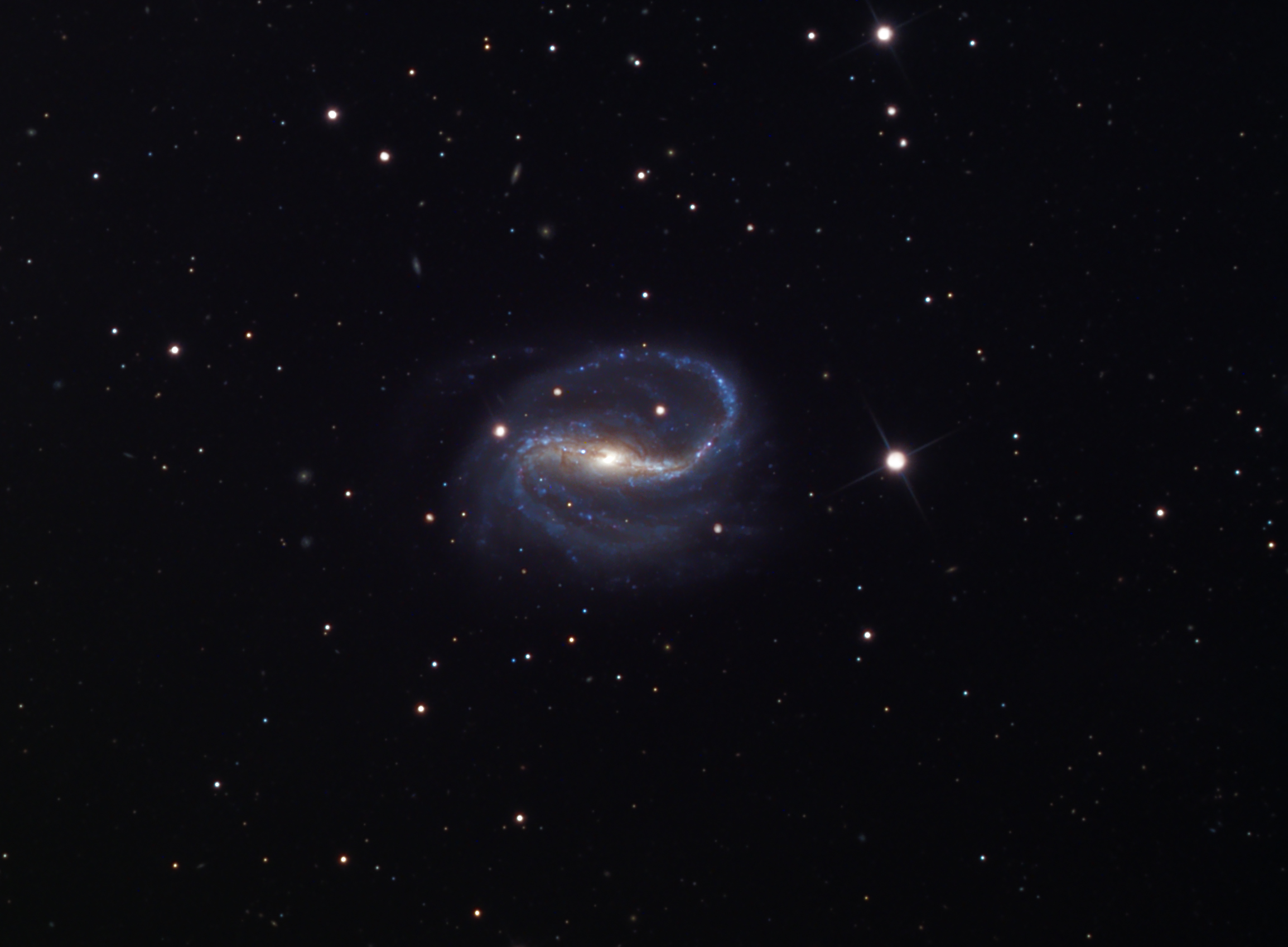 NGC 7479 barred spiral galaxy